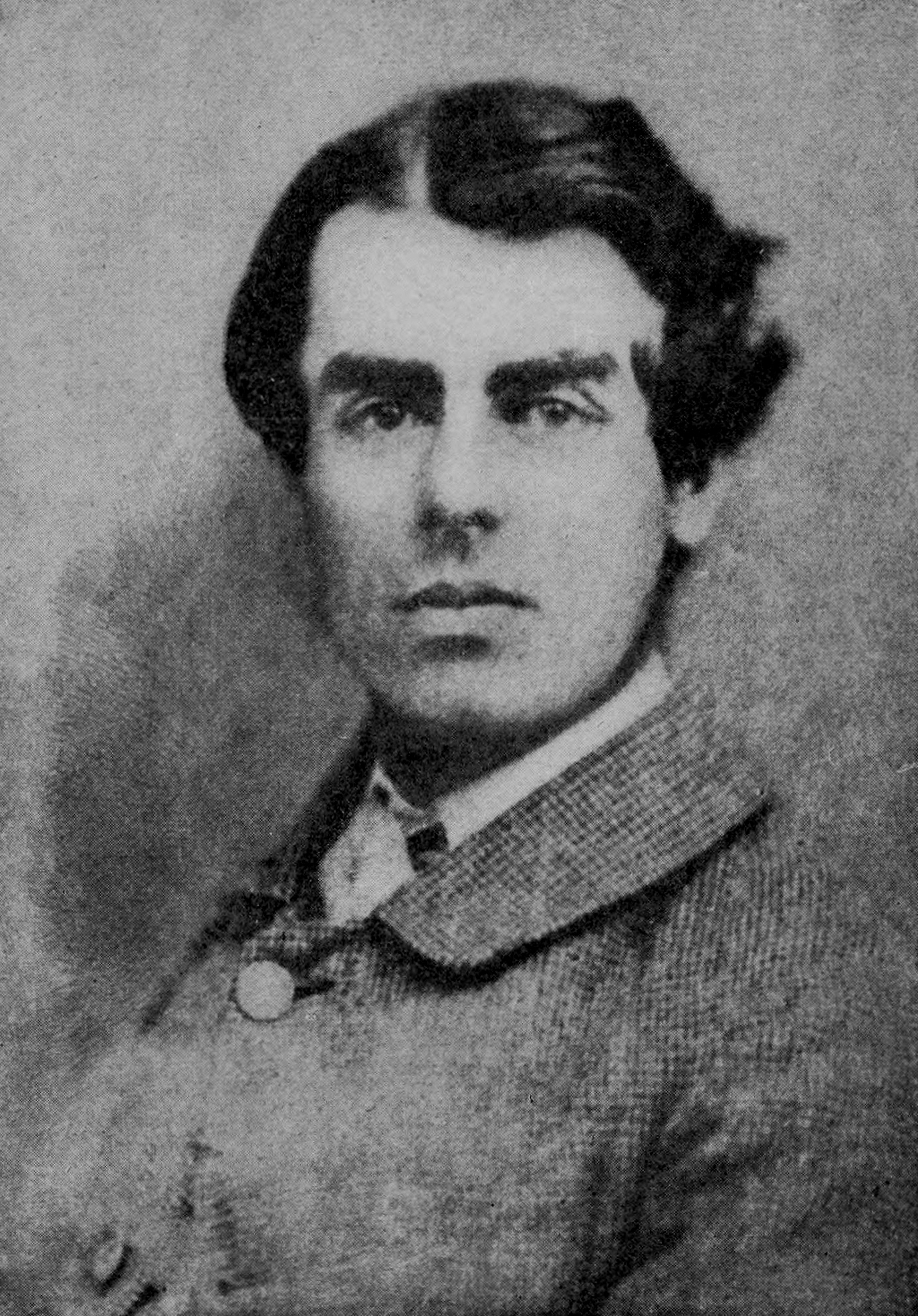 Samuel Butler (novelist)